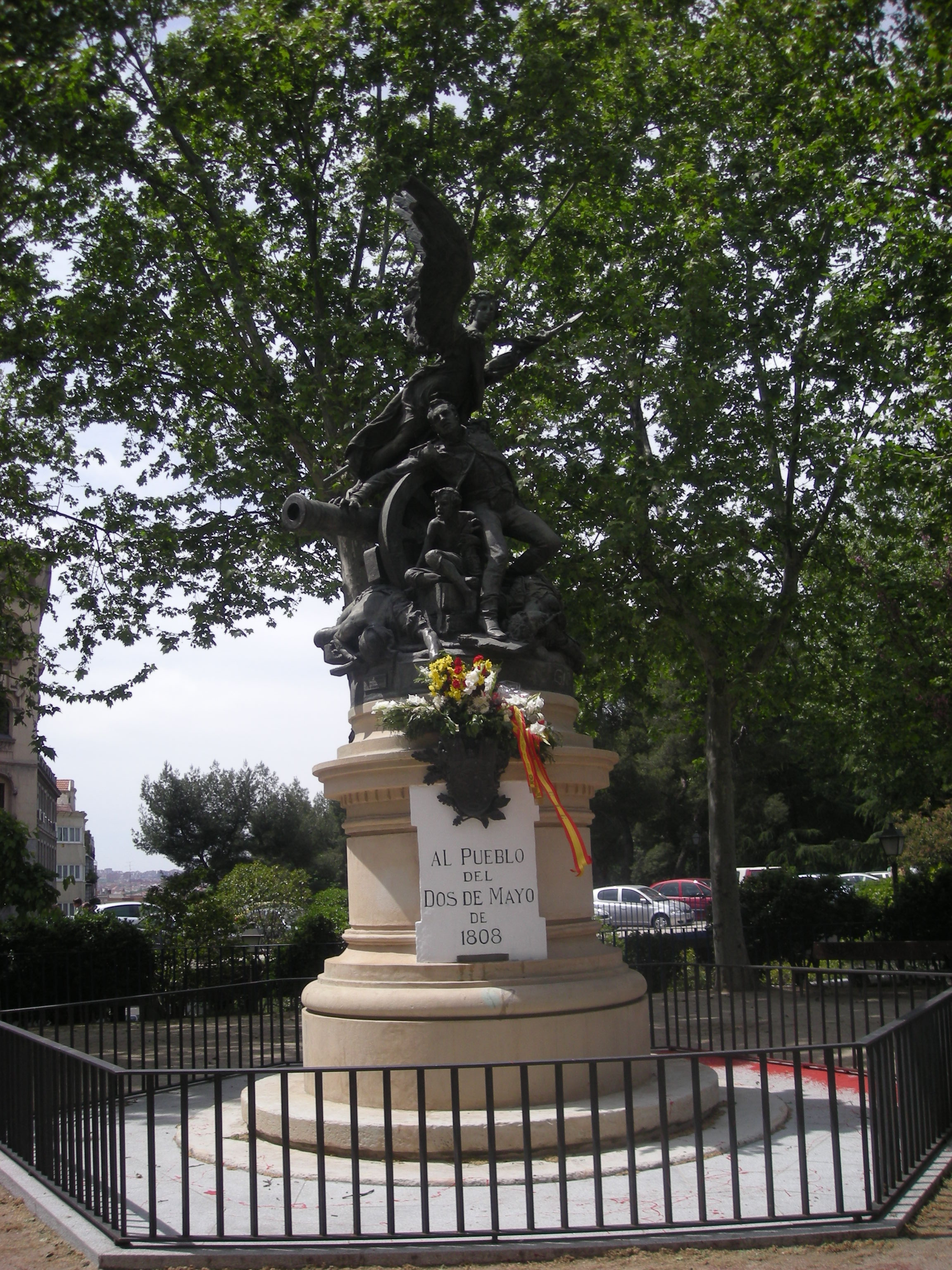 Front view of Heroes of The Second of May.